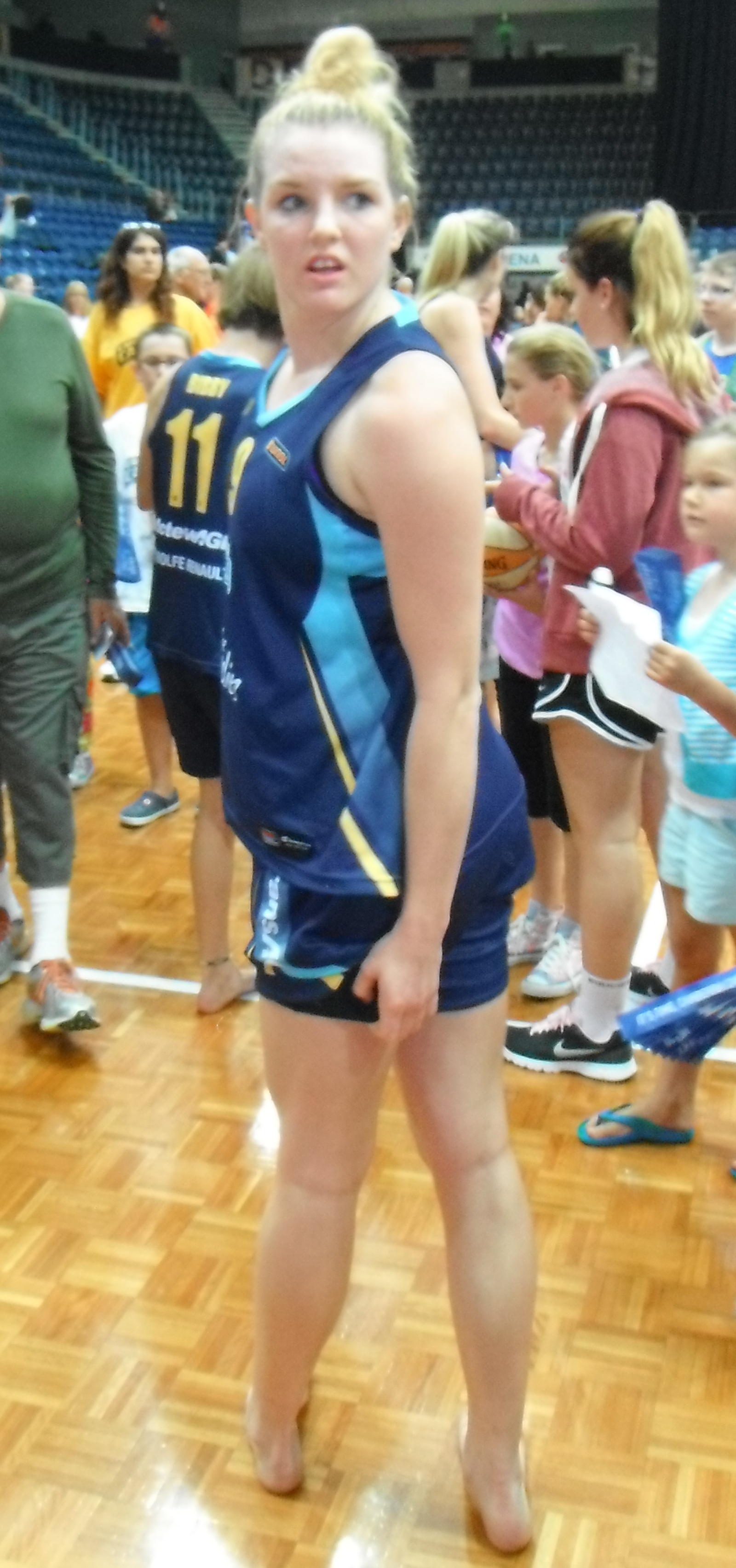 Canberra Capital Casey Samuels after the game against Townsville Fire.